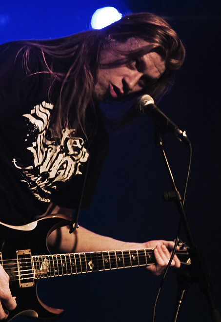 Pekka Kokko of Kalmah performing at Dante's Highlight in Helsinki, Finland on March 6, 2010. Photograph taken using a Canon EOS 40D.